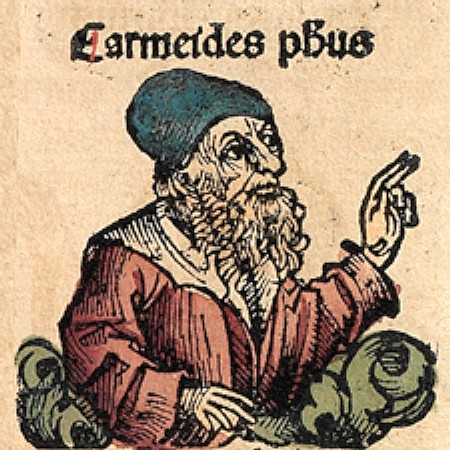 Ancient Greek philosopher Carneades, depicted in the Nuremberg Chronicle where he is called "Carmeides"